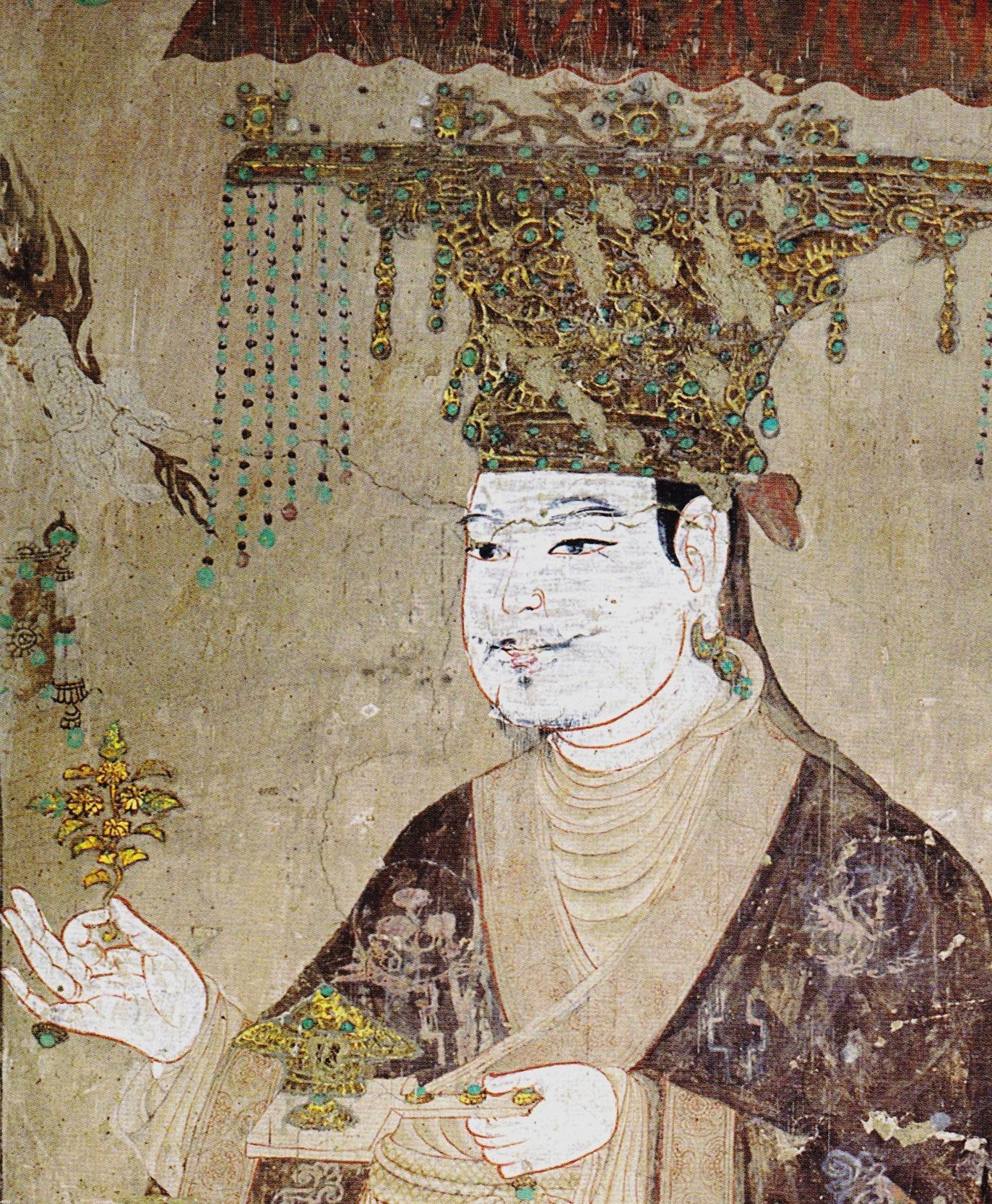 Portrait of Viśa Saṃbhava, a Khotan king, from the Mogao Caves, Dunhuang, the Five Dynasties (907–979), scanned